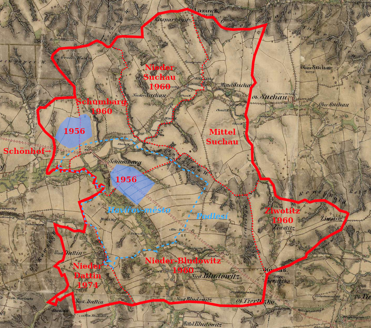 The evolution of the city of Havířov with an austrian map from around 1850 in the background, borders based on maps from [1]